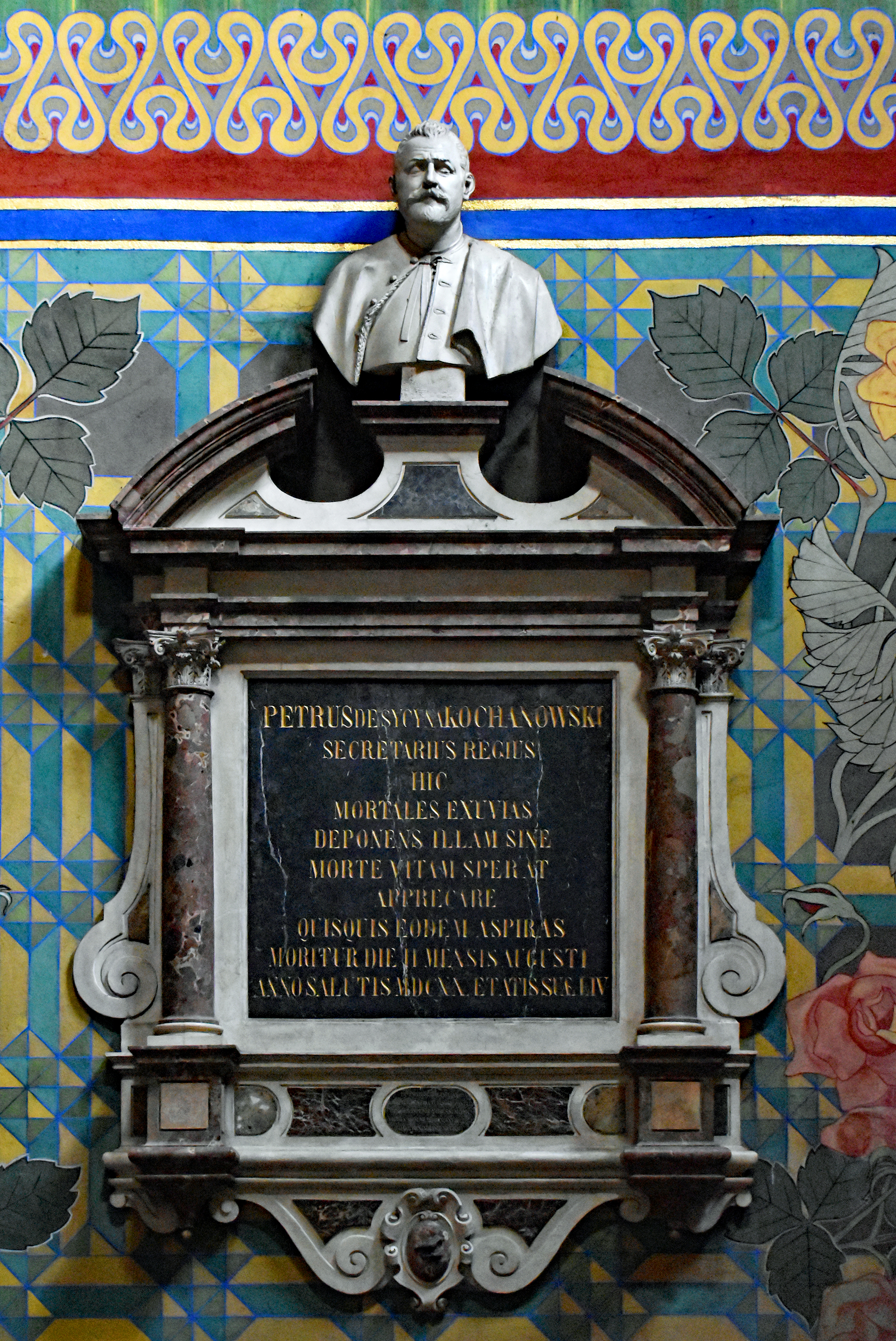 St. Francis of Assisi Church, epitaph of Piotr Kochanowski-Polish poet (ca. 1850 design. by Oskar Sosnowski), 2 Franciszkanska street, Old Town, Krakow, Poland